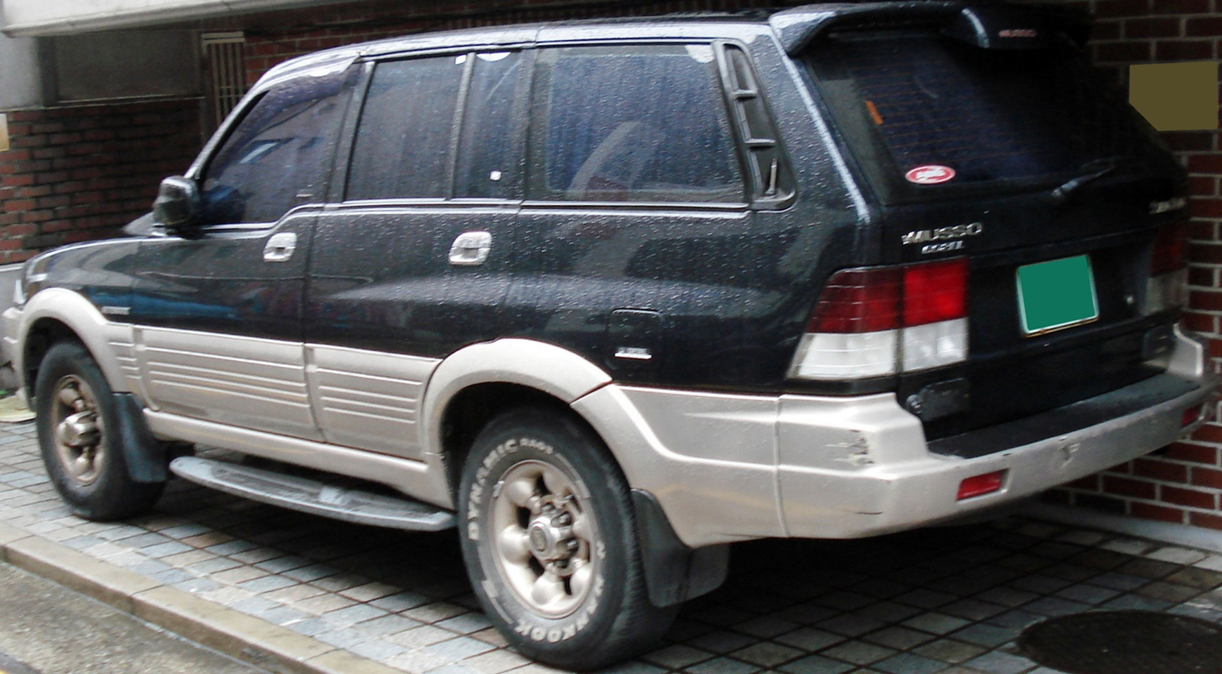 SsangYong Musso